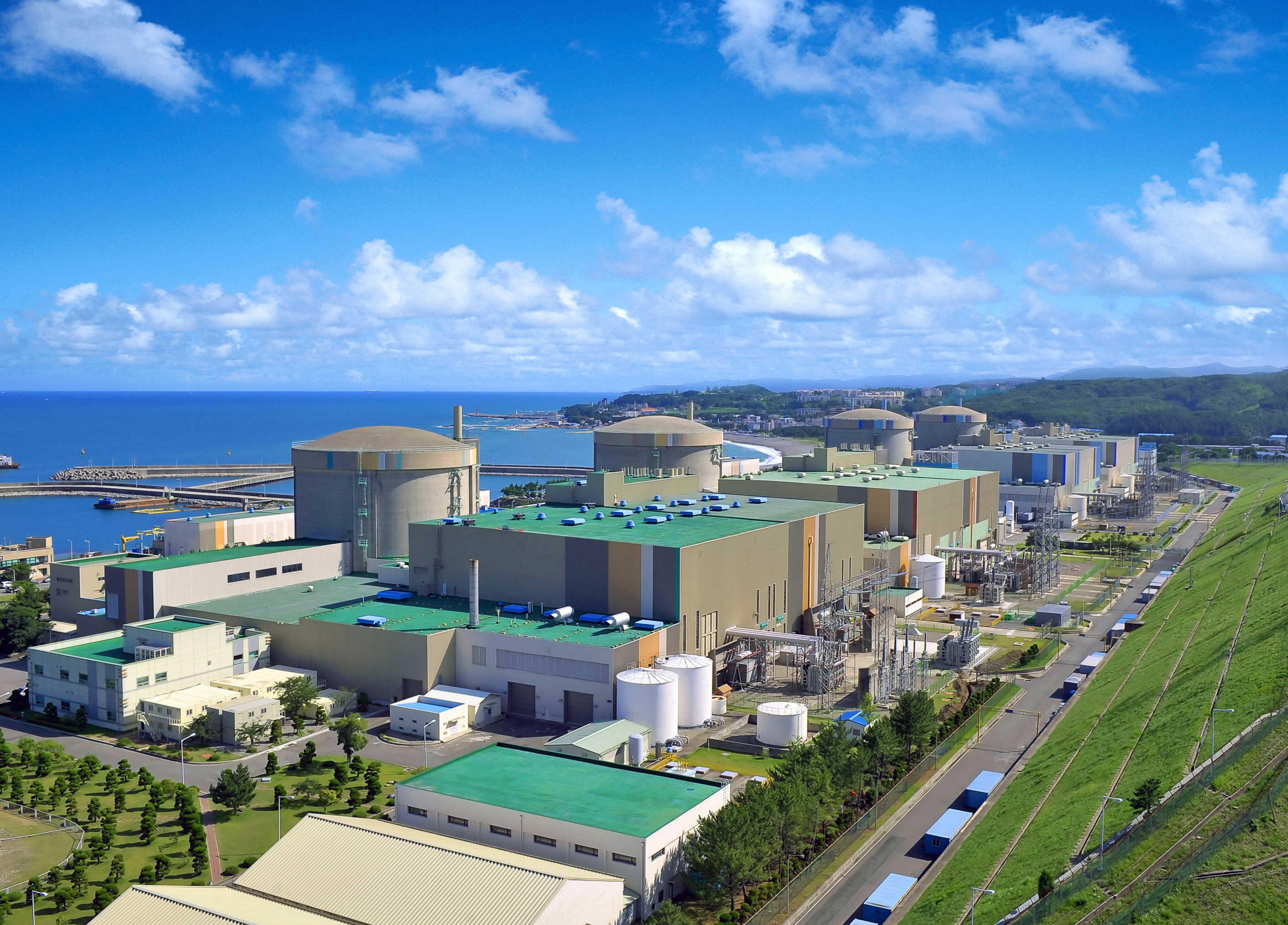 Korea Wolsong Nuclear Power Plant